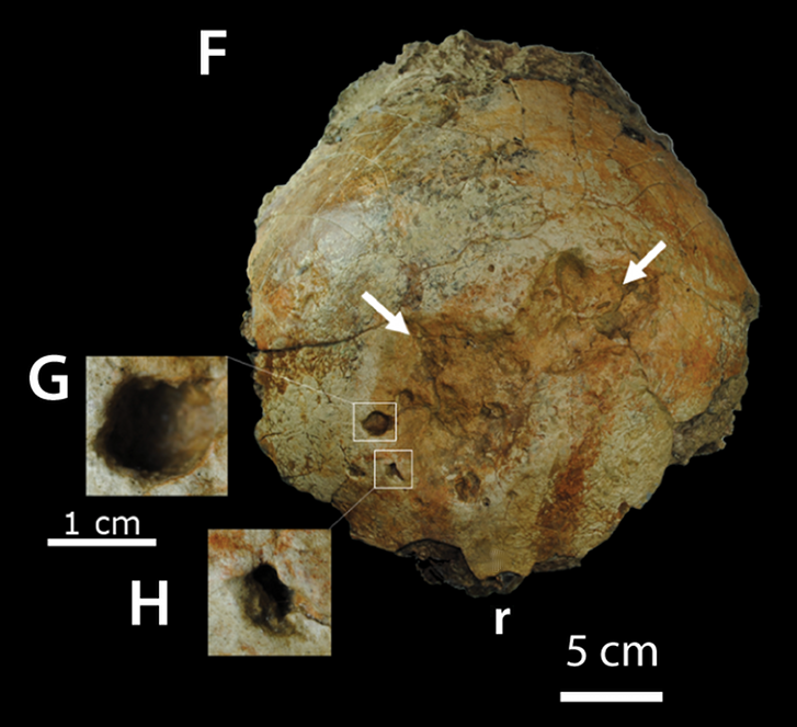 BMRP 2001.4.1, Pachycephalosaurus wyomingensis in dorsal view with arrows denoting large depression features and high magnification of deep erosive lesions (G, H). Rostral portion of the frontal denoting “r”.